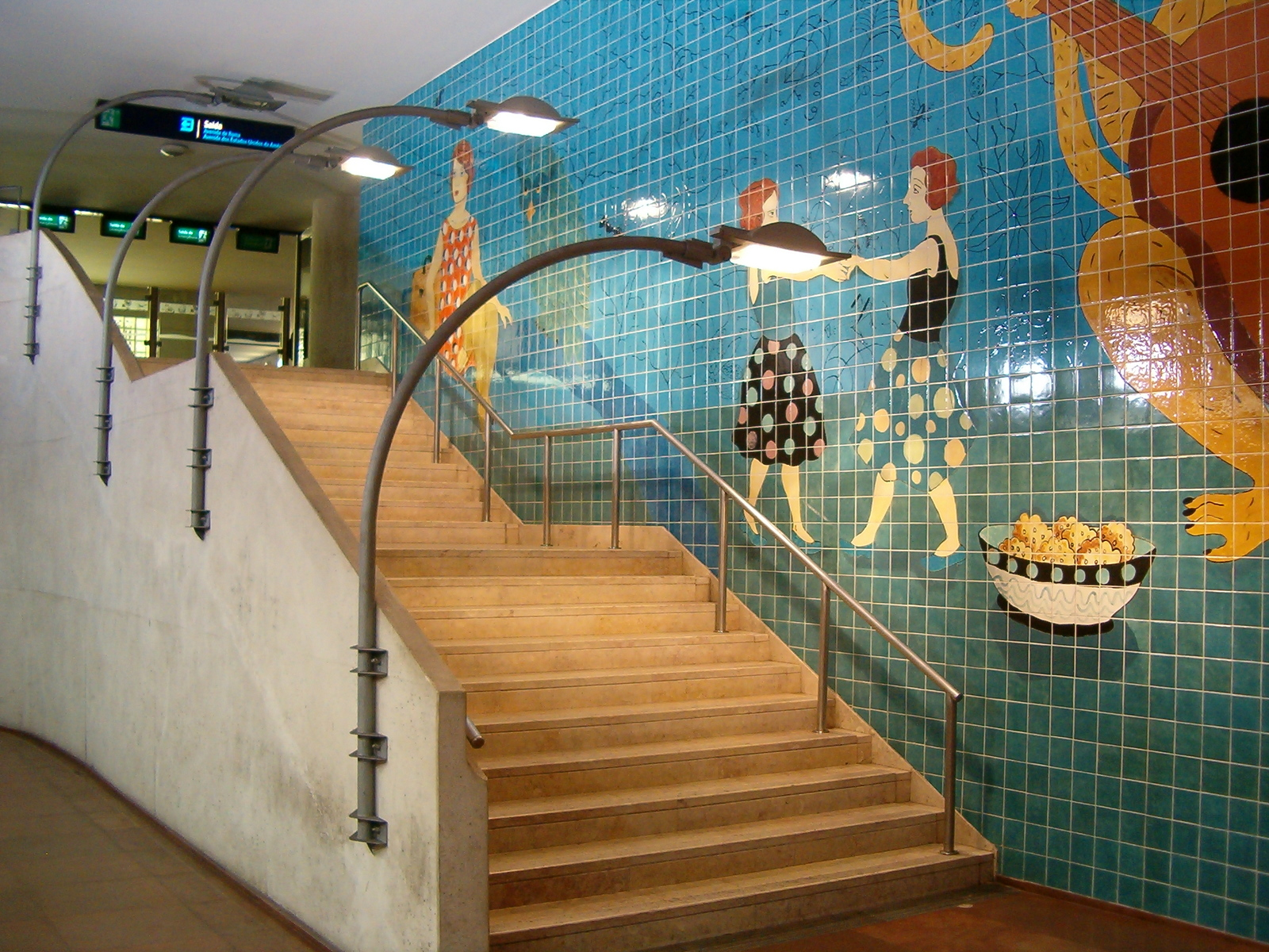 Metro station Alvalade (Lisboa); azulejos panel by Bela Silva